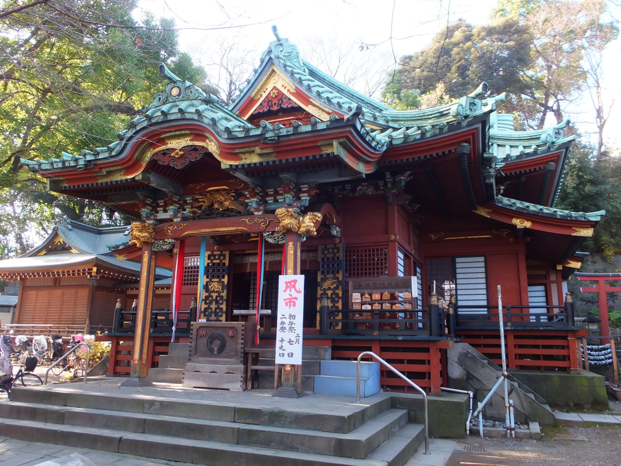 Ōji Inari Shrine in Kita-ku, Tokyo